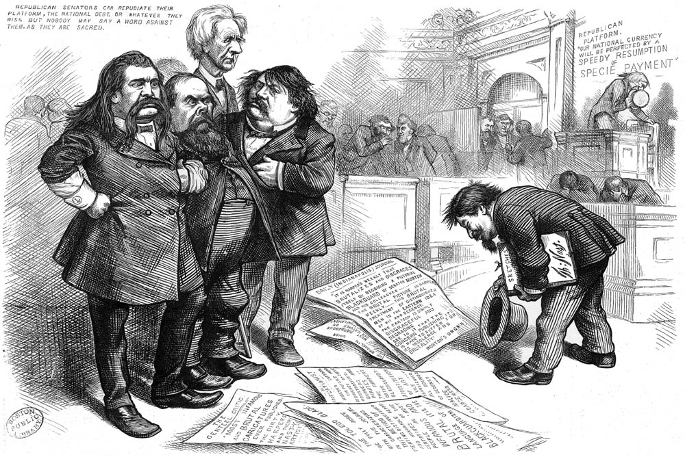 Thomas Nast bows low before the floor of the U.S. Senate. A group of caricatured senators stand to one side. Some senators hide their faces. Carl Schurz whispers to Reuben Fenton in the background.Caption: "PEEVISH SCHOOL-BOYS, WORTHLESS OF SUCH HONOR." "Apollos, pardon my great Profaneness; oh, pardon me, that I descend so low!" The first line of the caption is apparently taken from Shakespeare's Julius Caesar, Act V, Scene I. The featured four senators from the greenback advocates on the left (from left to right) are: John A. Logan (Illinois), Oliver P. Morton (Indiana), Simon Cameron (Pennsylvania), Matthew H. Carpenter (Wisconsin)